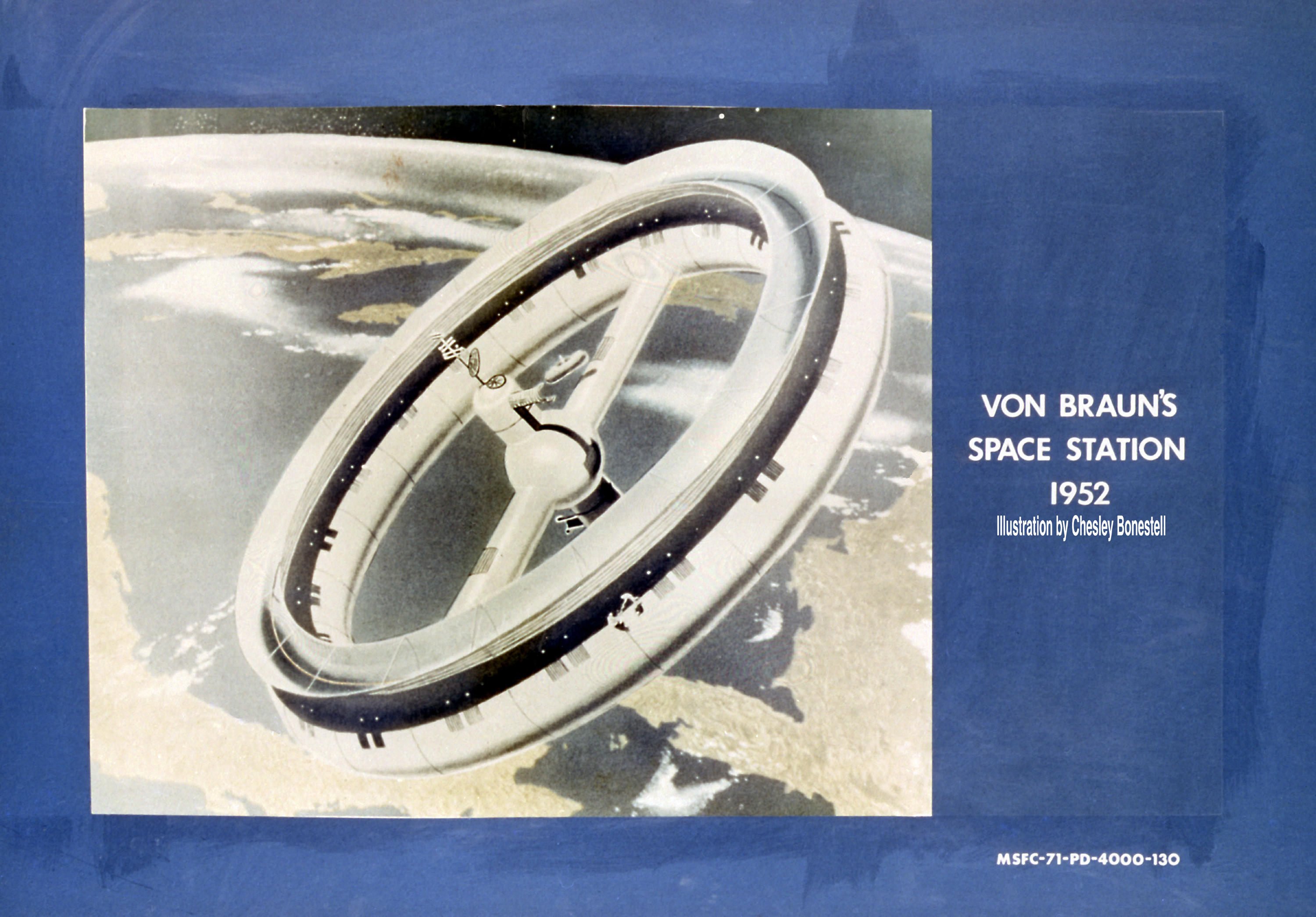 This is a von Braun 1952 space station concept. In a 1952 series of articles written in Collier's, Dr. Wernher von Braun, then Technical Director of the Army Ordnance Guided Missiles Development Group at Redstone Arsenal, wrote of a large wheel-like space station in a 1,075-mile orbit. This station, made of flexible nylon, would be carried into space by a fully reusable three-stage launch vehicle. Once in space, the station's collapsible nylon body would be inflated much like an automobile tire. The 250-foot-wide wheel would rotate to provide artificial gravity, an important consideration at the time because little was known about the effects of prolonged zero-gravity on humans. Von Braun's wheel was slated for a number of important missions: a way station for space exploration, a meteorological observatory and a navigation aid. This concept was illustrated by artist Chesley Bonestell.